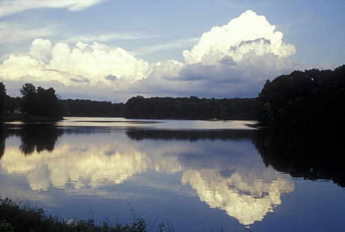 it0833 il illinois reflection in lake at red hills state park